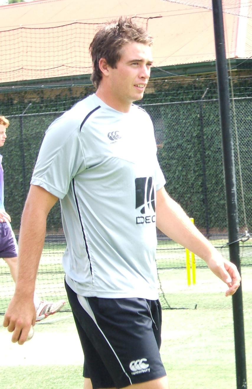 Tim Southee at a training session at the Adelaide Oval